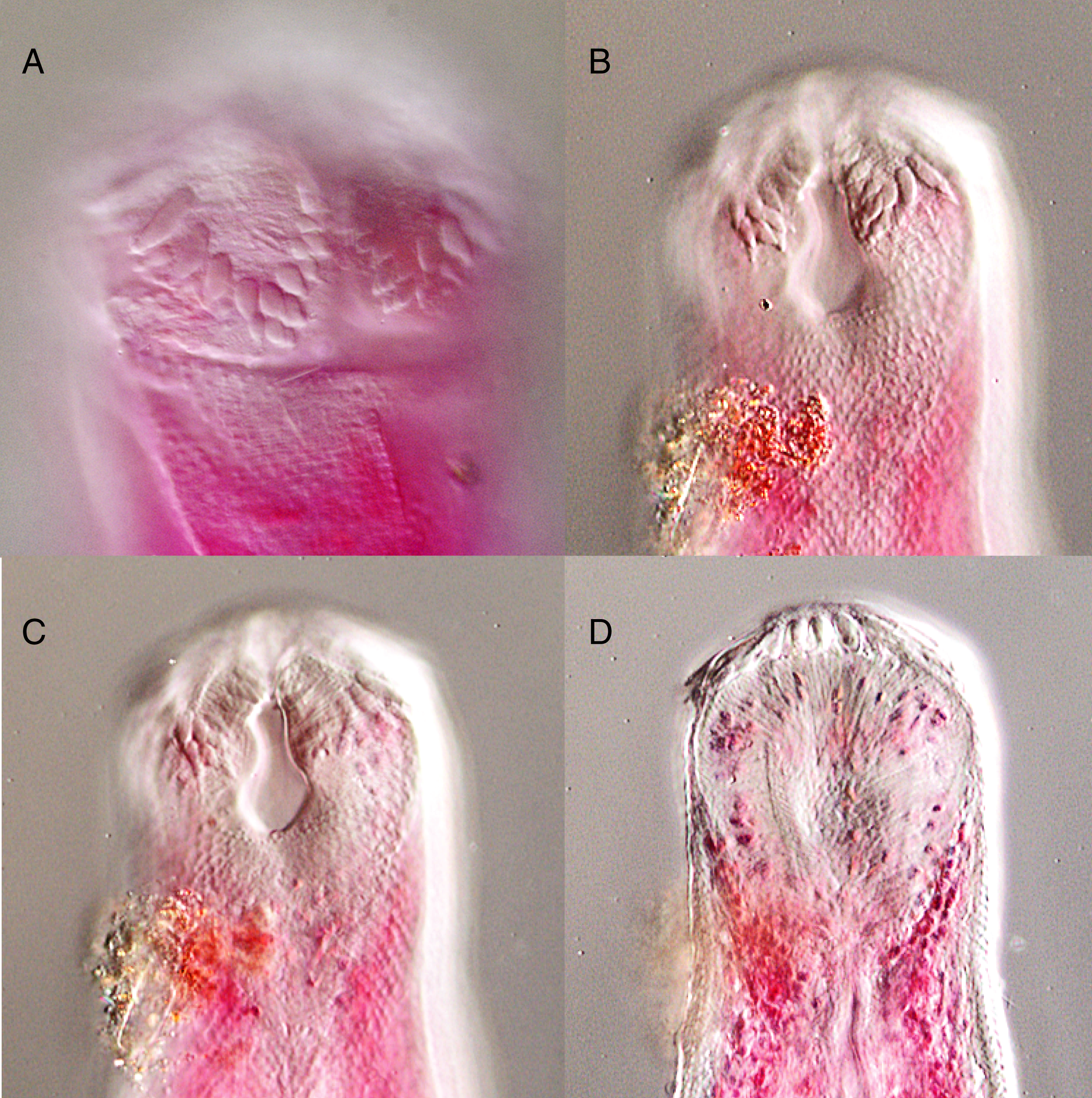 Figure 7: Overstreetia cribbi Bray & Justine, 2014 Photographs. (A) Anterior end of paratype showing spination. (B) Anterior end of holotype showing spination in ventral plane. (C) Anterior end of holotype showing spination in plane slightly dorsal to figure 7B, also showing ventral aperture of oral sucker. (D) Anterior end of holotype showing spination in dorsal plane.